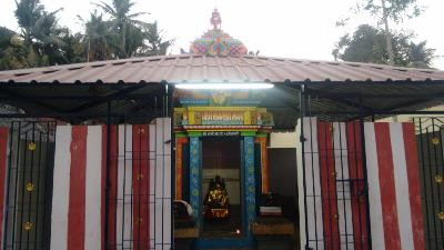 Kumbakonam ellaiyammantemple கும்பகோணம் எல்லையம்மன்கோயில்